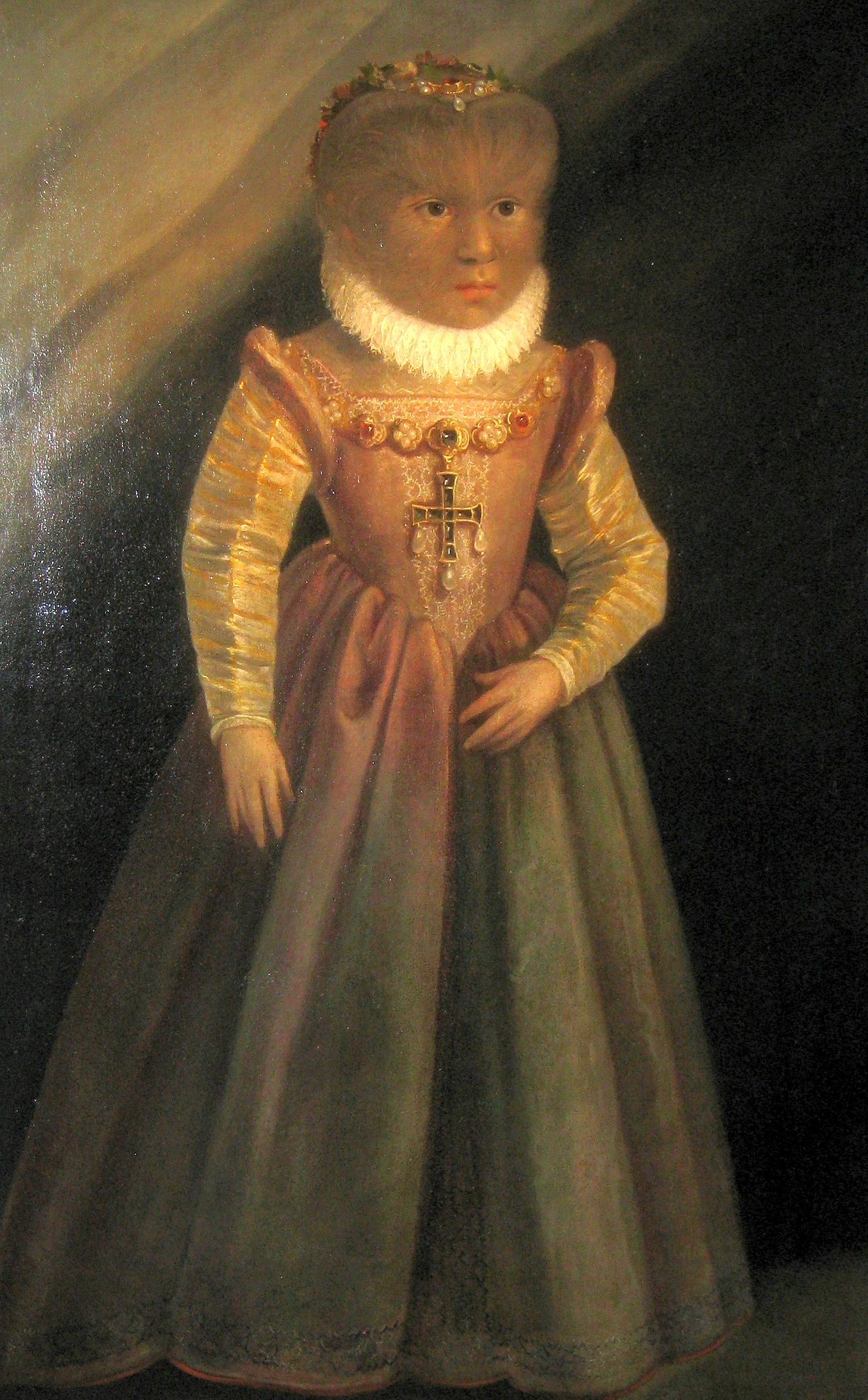 Maddalena (Madeleine) Gonzales (v. 1580), the daughter of Petrus Gonsalvus the "Hairy Man" From Ambras castle's collection of art and curiosities.